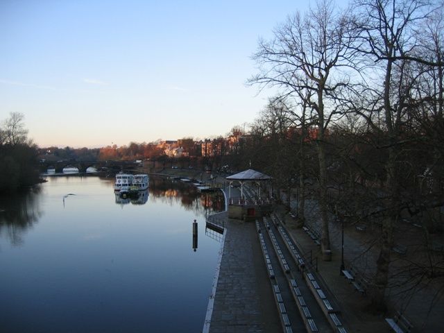 A still morning on the River Dee. A cold, frosty, and very still morning on the River Dee. This view along the Groves towards the bandstand and the Old Dee Bridge, is taken from the Queen's Park suspension bridge. Coincidentally it was taken almost exactly two years after 289737 (only one day out), but the weather was quite different in that photo.